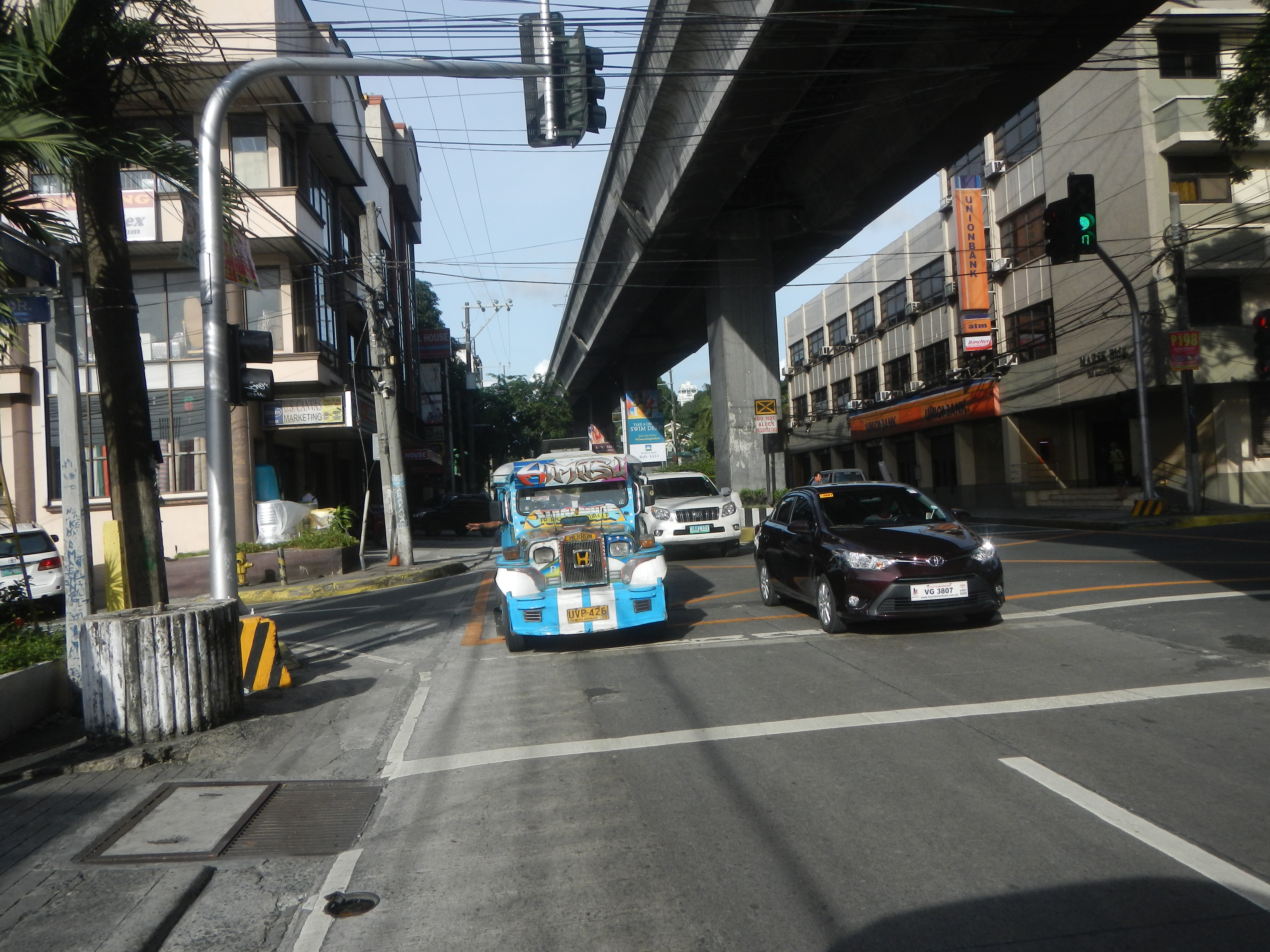 Major roads in Metro Manila E. Rodriguez, Sr. Avenue corner Betty Go-Belmonte Street towards Aurora Boulevard in Betty Go-Belmonte LRT Station in the List of barangays of Metro Manila, Legislative districts of Quezon City Districts 4, Barangays of Quezon City, Barangay Immaculate Conception (Betty Go-Belmonte), Mariana, Kaunlaran, Valencia, Cubao and New Manila, Quezon City Balete Drive Haunted highway List of haunted locations in the Philippines Major roads in Metro Manila (Note: Judge Florentino Floro, the owner, to repeat, Donor Florentino Floro of all these photos hereby donate gratuitously, freely and unconditionally all these photos to and for Wikimedia Commons, exclusively, for public use of the public domain, and again without any condition whatsoever).